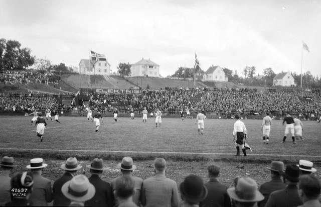 Football match at Ullevaal stadion